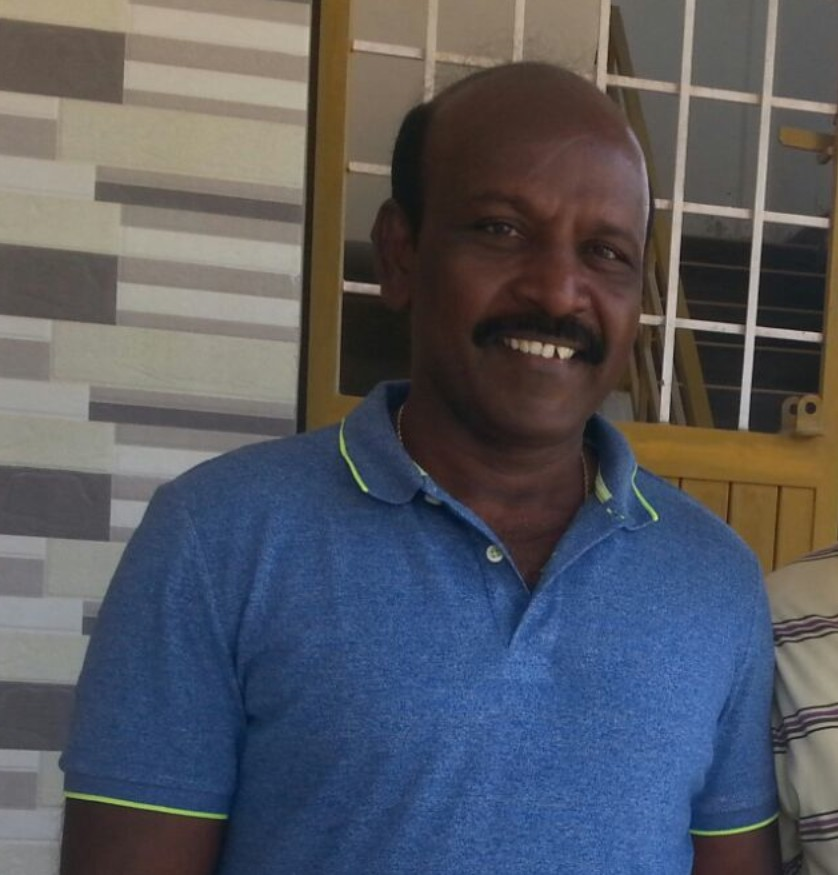 m. subramaniyam